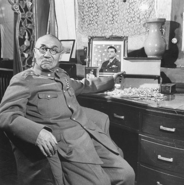 Yan Xishan in 1948